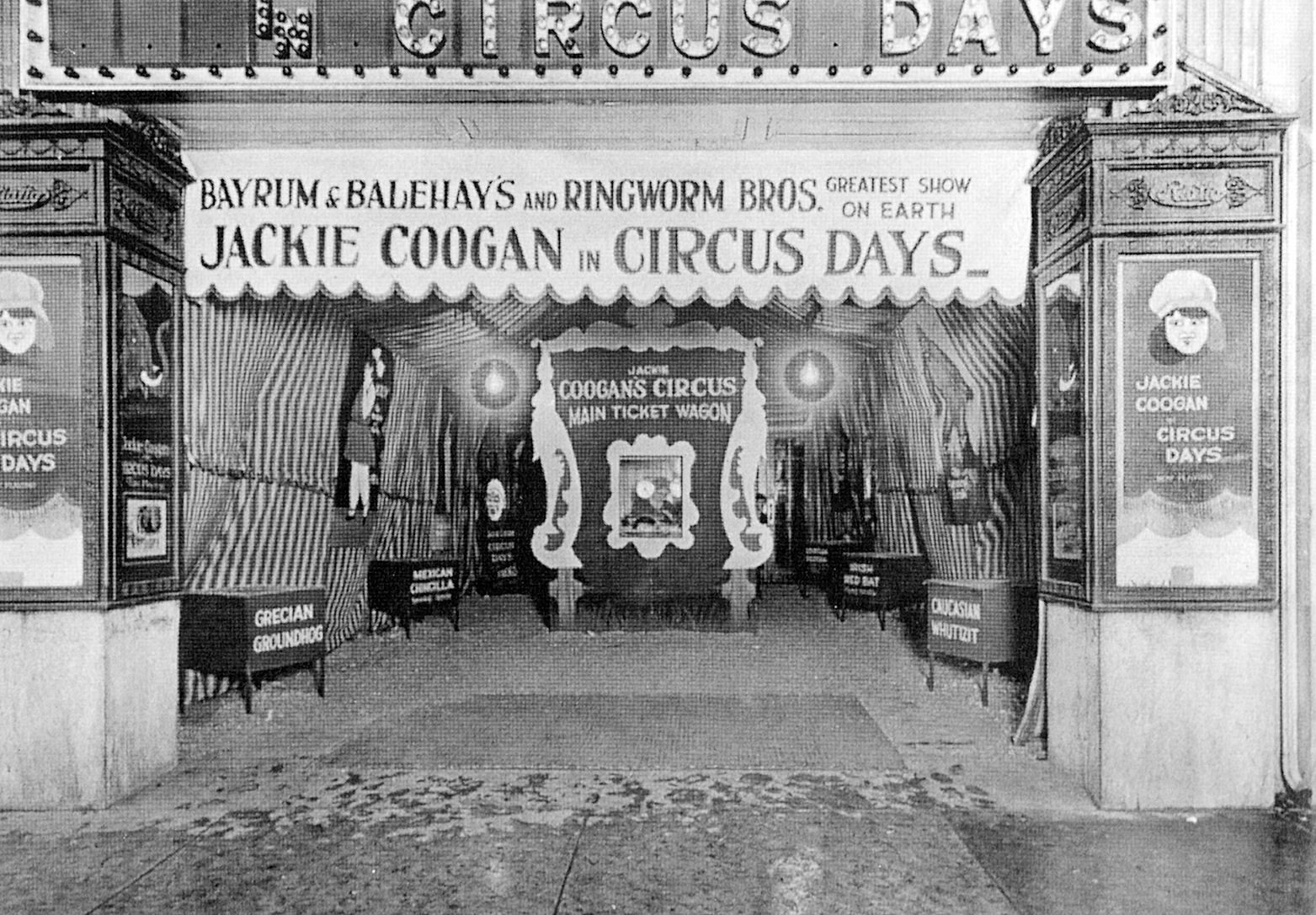 Entrance to the Rialto Theater, 943 Hamilton Street, Allentown, Pennsylvania in 1923. Opened in 1921, closed in 1979, The auditorium was gutted and converted to storage space in 1980. Later the auditorium was demolished, leaving just the front and foyer area which is now used for storefront offices. The theater is showing the American silent comedy film Circus Days (1923).